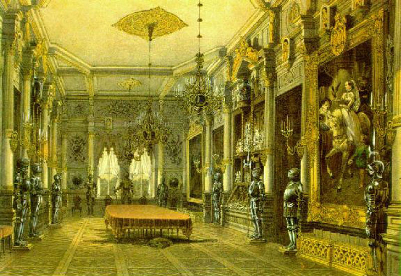 Knights' Hall in Verkiai Palacem Vilnius Lithuania. 1846. Lithograph.